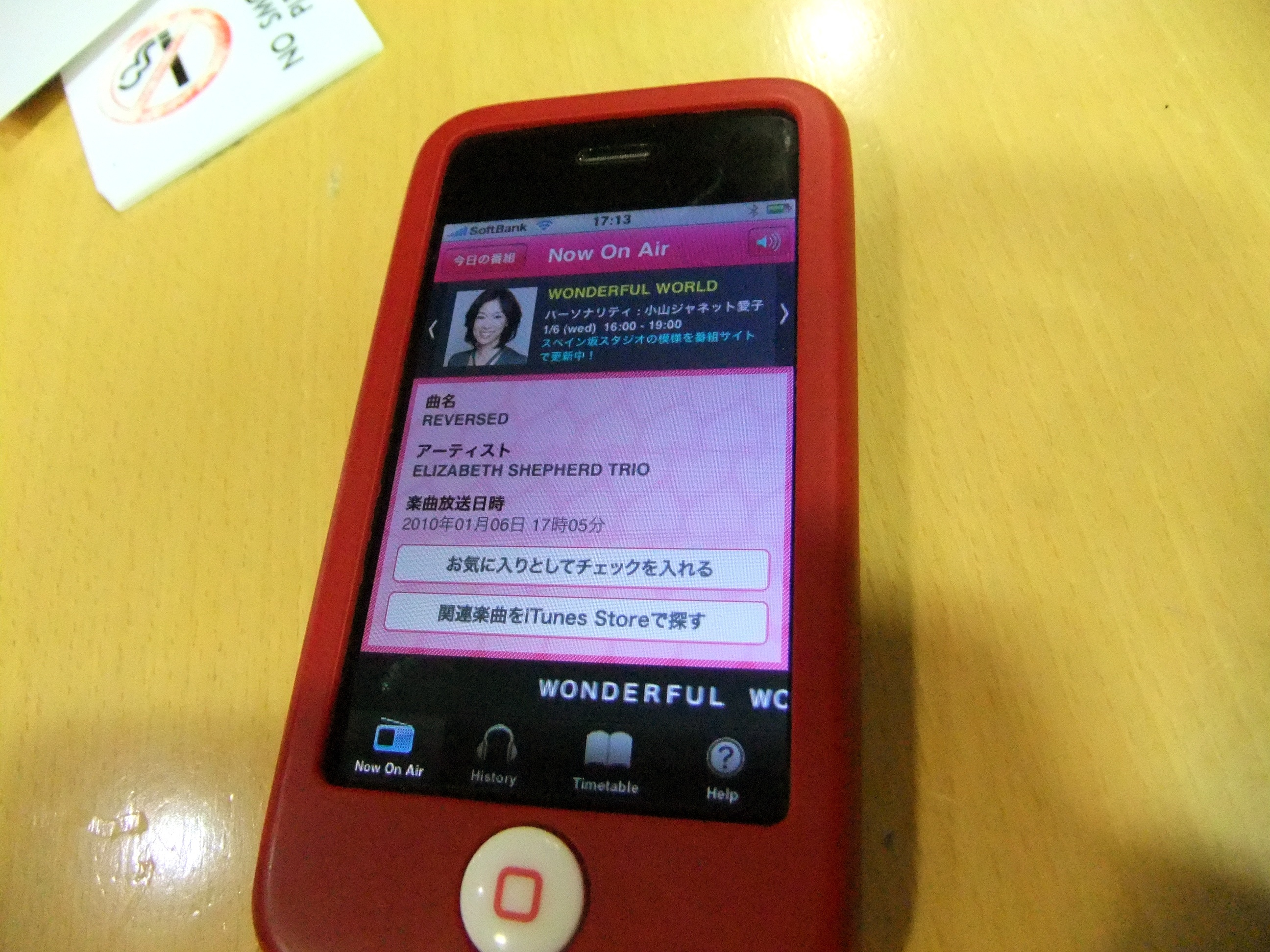 The first ever iPhone app from a Japanese radio station. Craftily, it uses the inbuilt GPS location system to ensure it only works in the Tokyo area - for copyright reasons as well as to limit any competition for the group's 38 other stations across Japan.